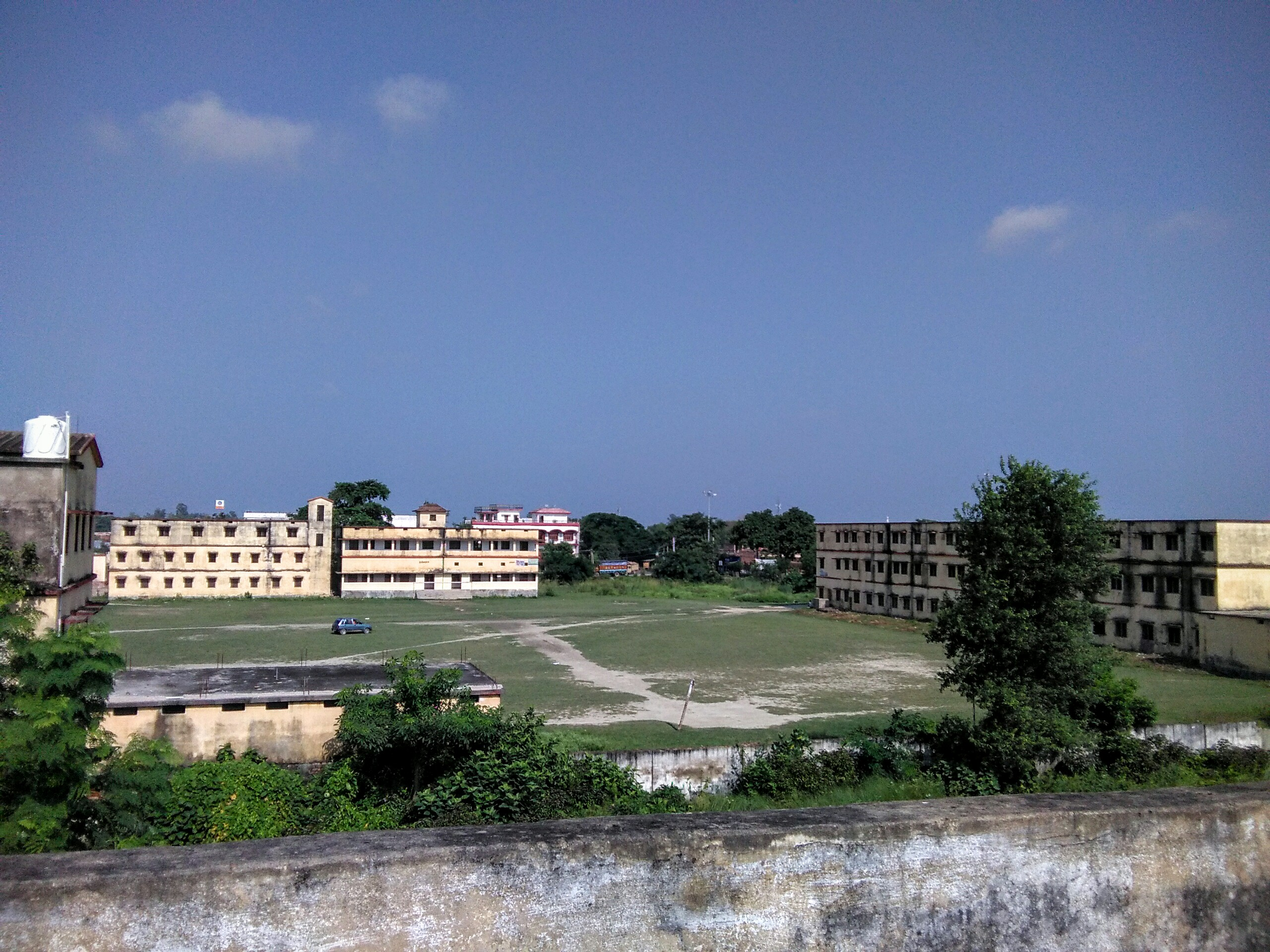 Daroga Prasad Ray Degree College